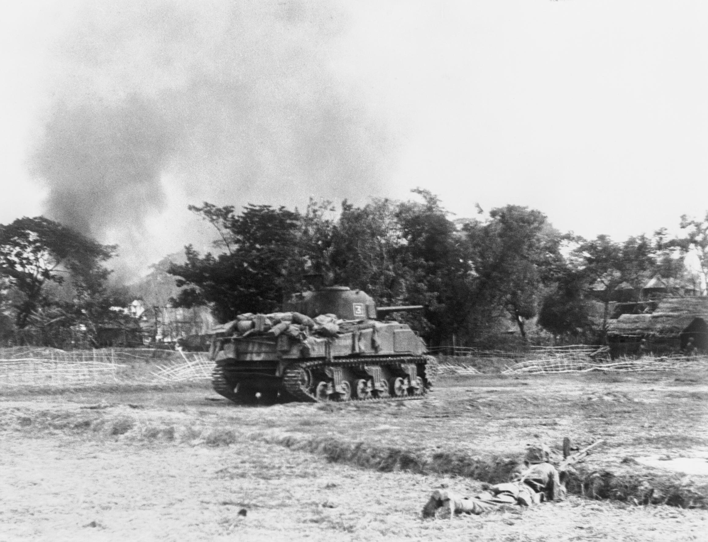 The War in the Far East- the Burma Campaign 1941-1945 The Advance on Rangoon March - May 1945: A Sherman tank of the Indian Armoured Corps in the village of Pyinbongyi on the road to Rangoon.